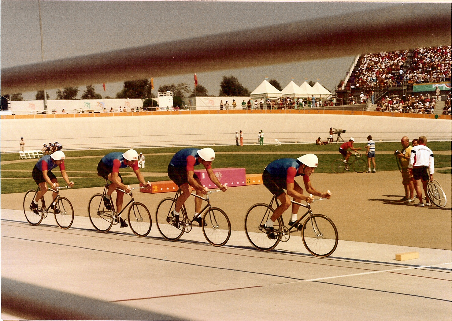 Great Britain's pursuit team at the 1984 Los Angeles. The velodrome was in Carson, in almost the same spot as the current ADT Event Center Velodrome. Those small front wheels helped the riders draft more closely, but they are no longer legal. Their qualifying time was 4:36.74, only 12th place. This was taken from my seat at the event. I was lucky enough to get front row seats between the pursuit line and the finish line.